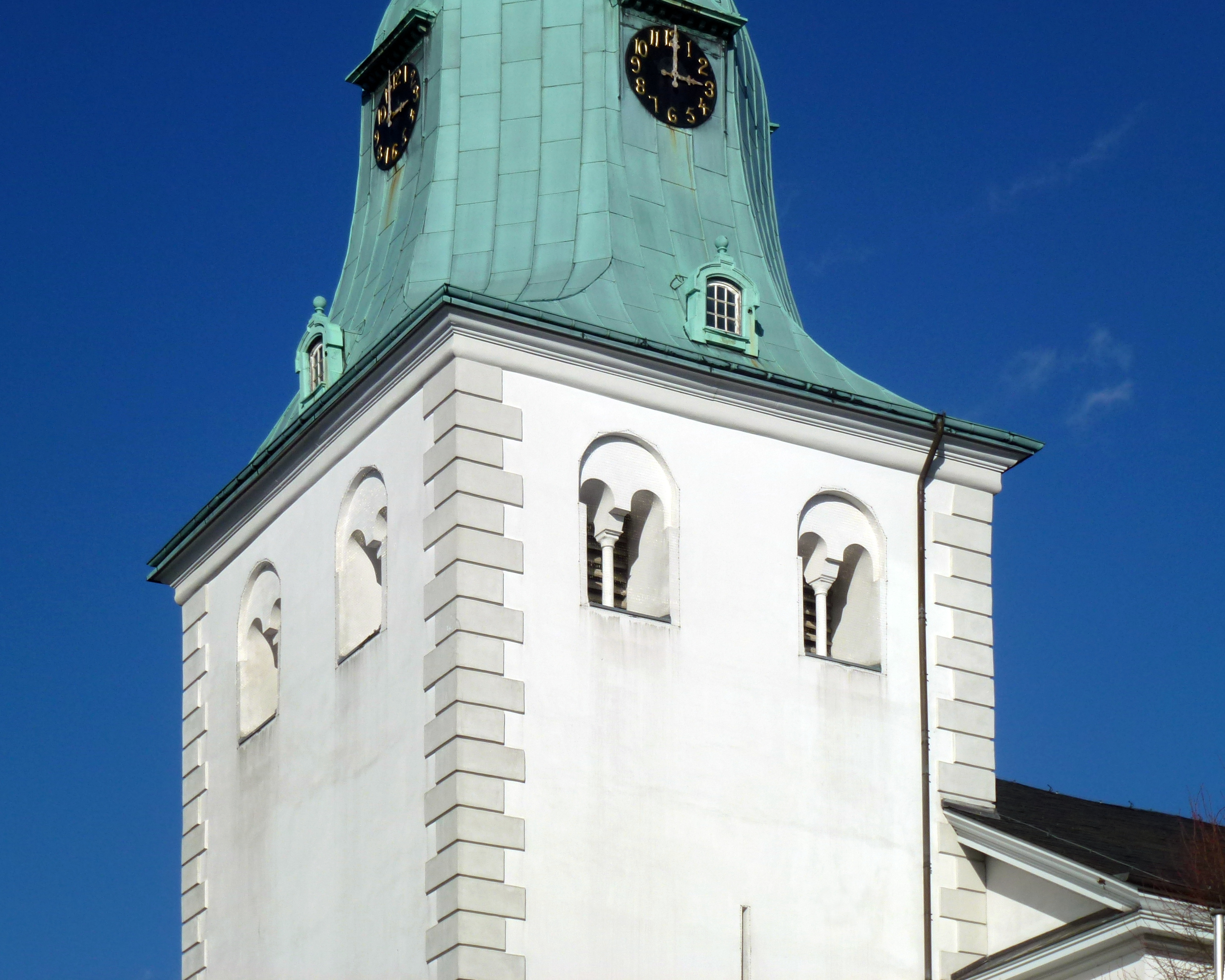 Protestant Church in Solingen-Wald, steeple